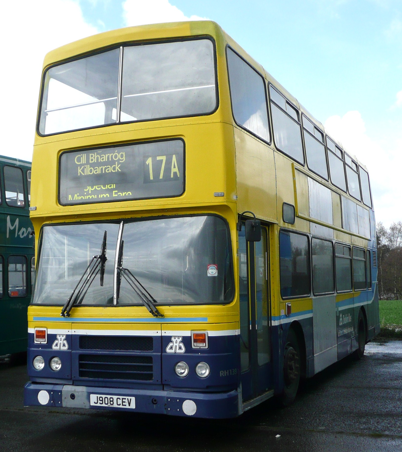 A 1992 Dublin Bus RH-class Alexander (Belfast) bodied Leyland Olympian double-decker, pictured at the 2008 Cobham bus rally in the UK. It was new to Dublin Bus as their dual-door fleet no. RH139 (reg. 92 D 139). Having been withdrawn in October 2006 and exported to Ensignbus, it's pictured here still in Dublin Bus livery and re-registered with UK plate J908 CEV, having had its centre door removed. It's since found its way to Cheltenham based coach operator Swanbrook, who are operating it in a green, white & purple livery applied in a style reminiscent of the Dublin Bus blue, white & orange livery which preceded this blue and yellow version.